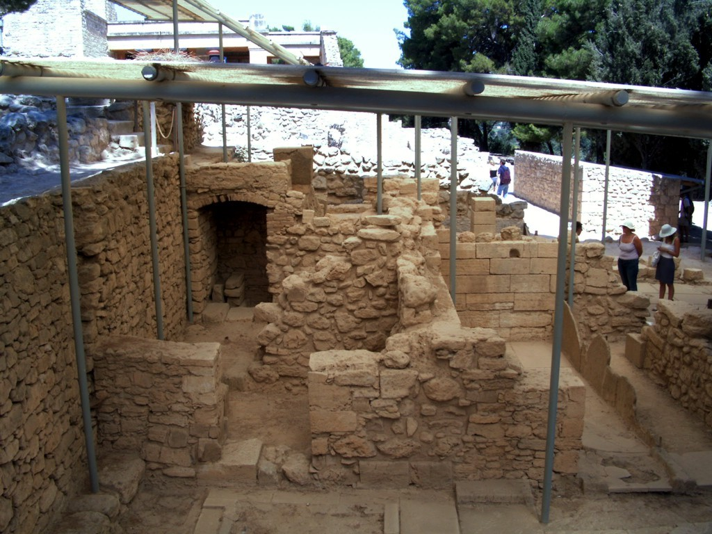 Ruins of Knossos